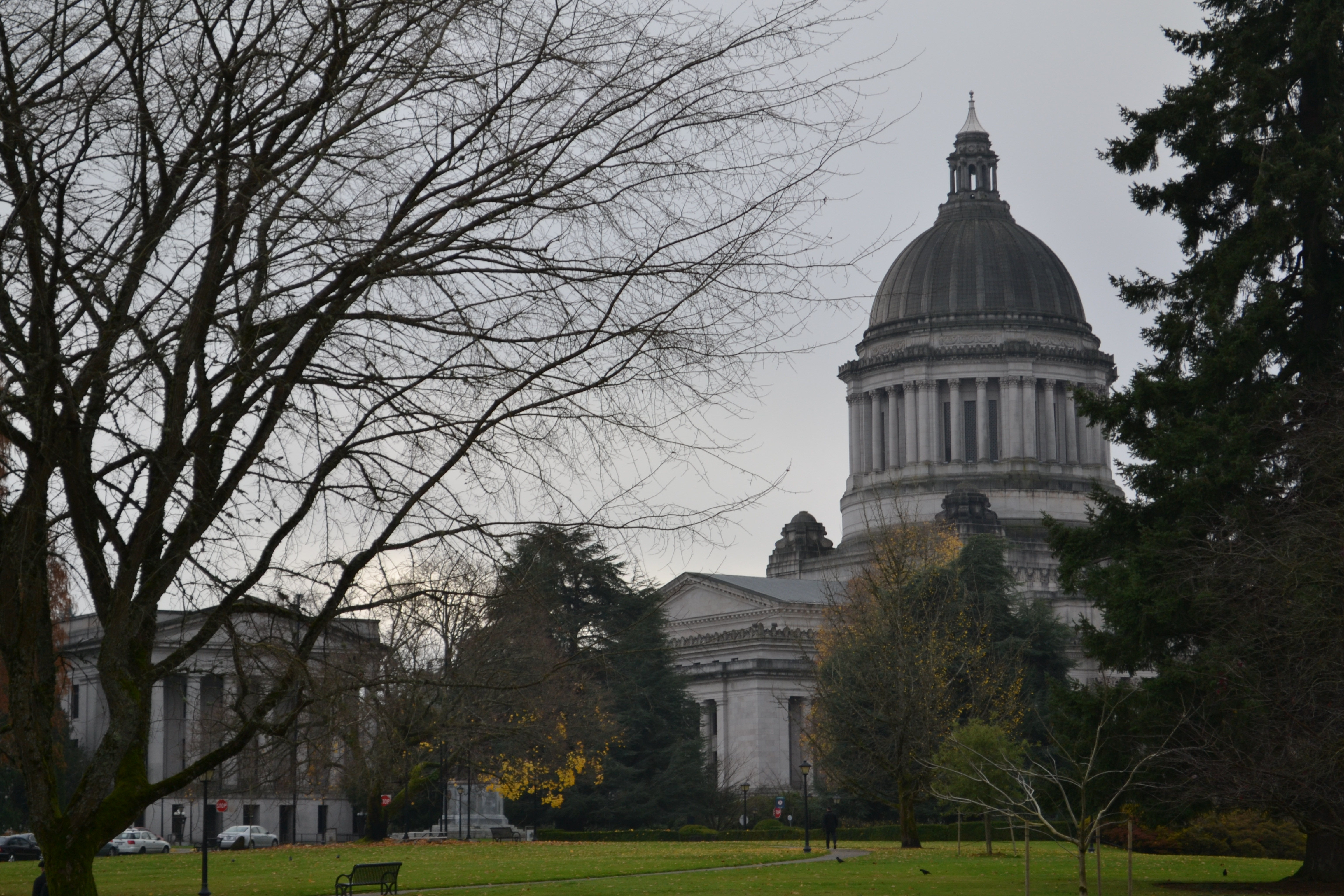 Washington State Capitol 2 (Olympia, Washington)